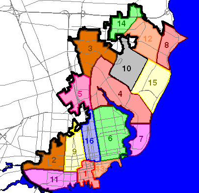 Generalized map of neighborhoods within the city limits of Pensacola, Florida USA.